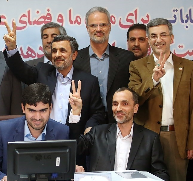 Registration from candidates of Iranian 2017 presidential election